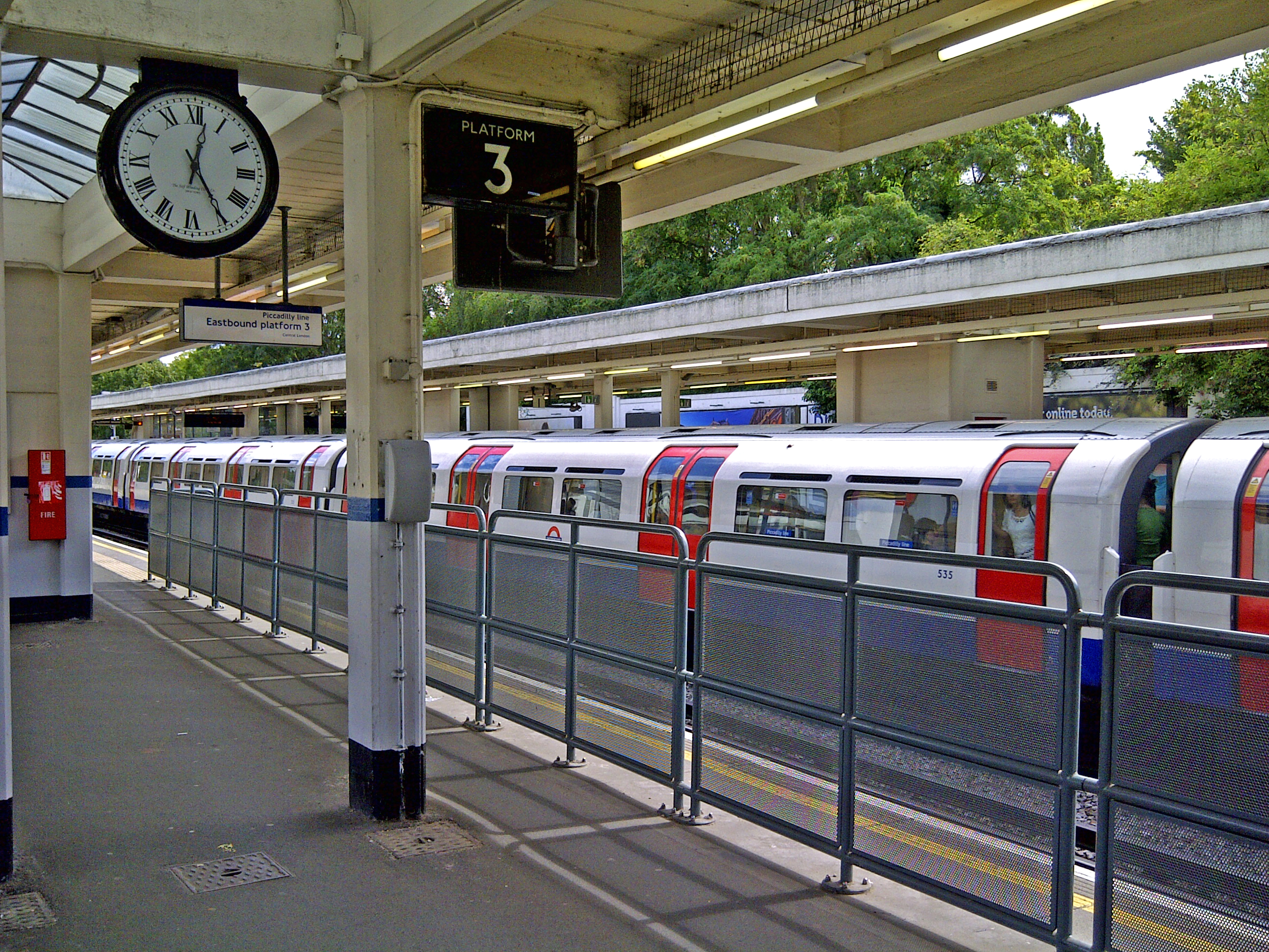 Interior of the Northfields Tube Station, London (Piccadilly Line train stopped on Westbound platform).